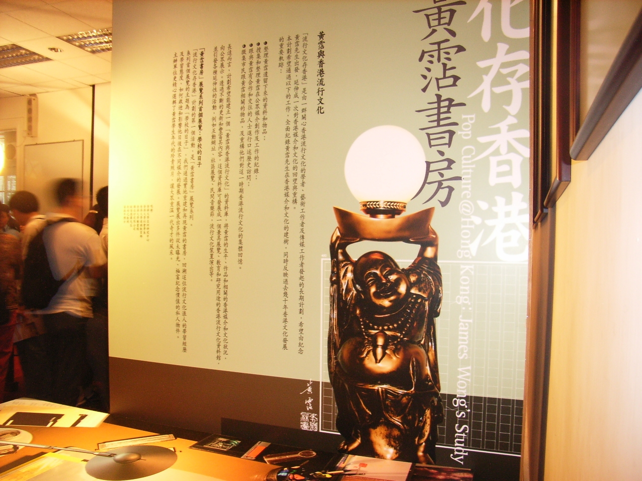 An exhibition named "James Wong & the University of Hong Kong Exhibition" Centre of Asian Studies "黃霑書房". 大部份zh:展品由 黃霑先生的家人提供 現在由zh:香港大學亞洲研究中心 保存作為學術研究.